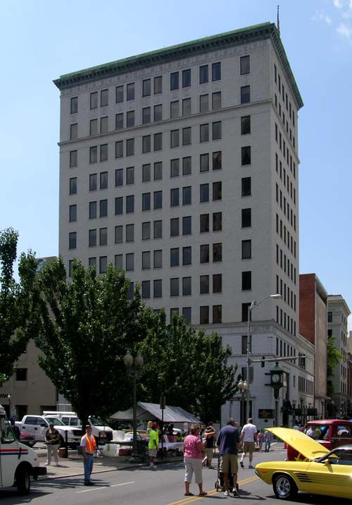 Colonial National Bank Building listed on the National Register of Historic Places in downtown Roanoke, Virginia, USA